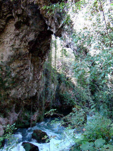 Thyamis (Kalamas) River, flowing through the Theogefyron (God's bridge).